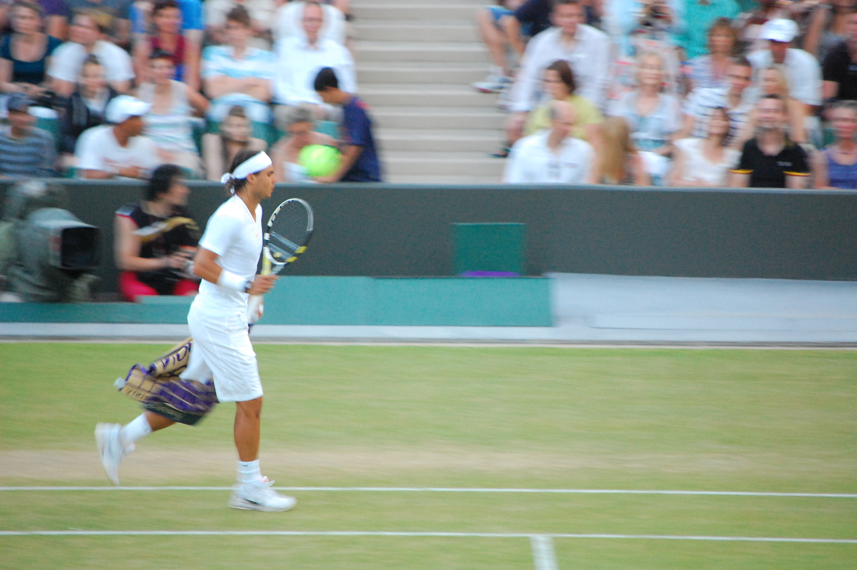 Tennis in Wimbledon 2010